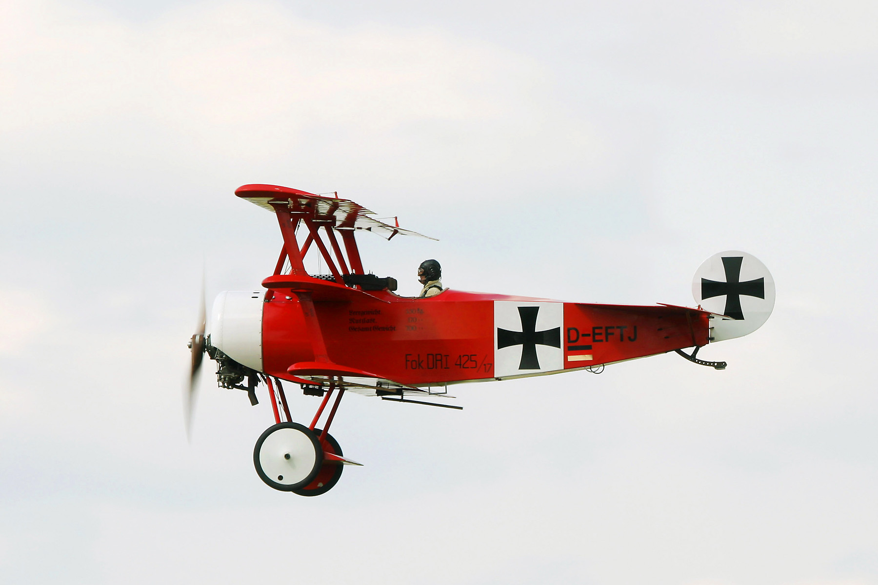 Fokker DR 1 Replica at the ILA 2004